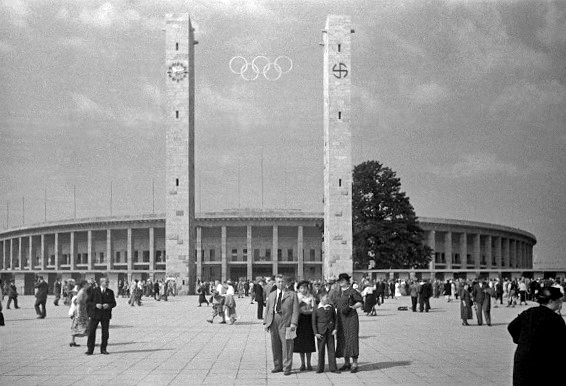 Olympic Stadium in Berlin 1936 Author: Josef Jindřich Šechtl Uploaded with approval of inheritors of the copyright